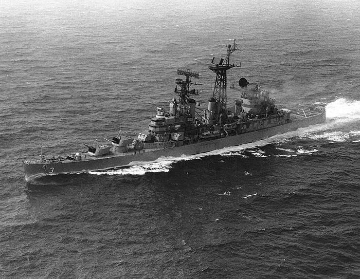 The U.S. Navy guided missile cruiser USS Galveston (CLG-3) underway in the Mediterranean Sea, 10 May 1967.